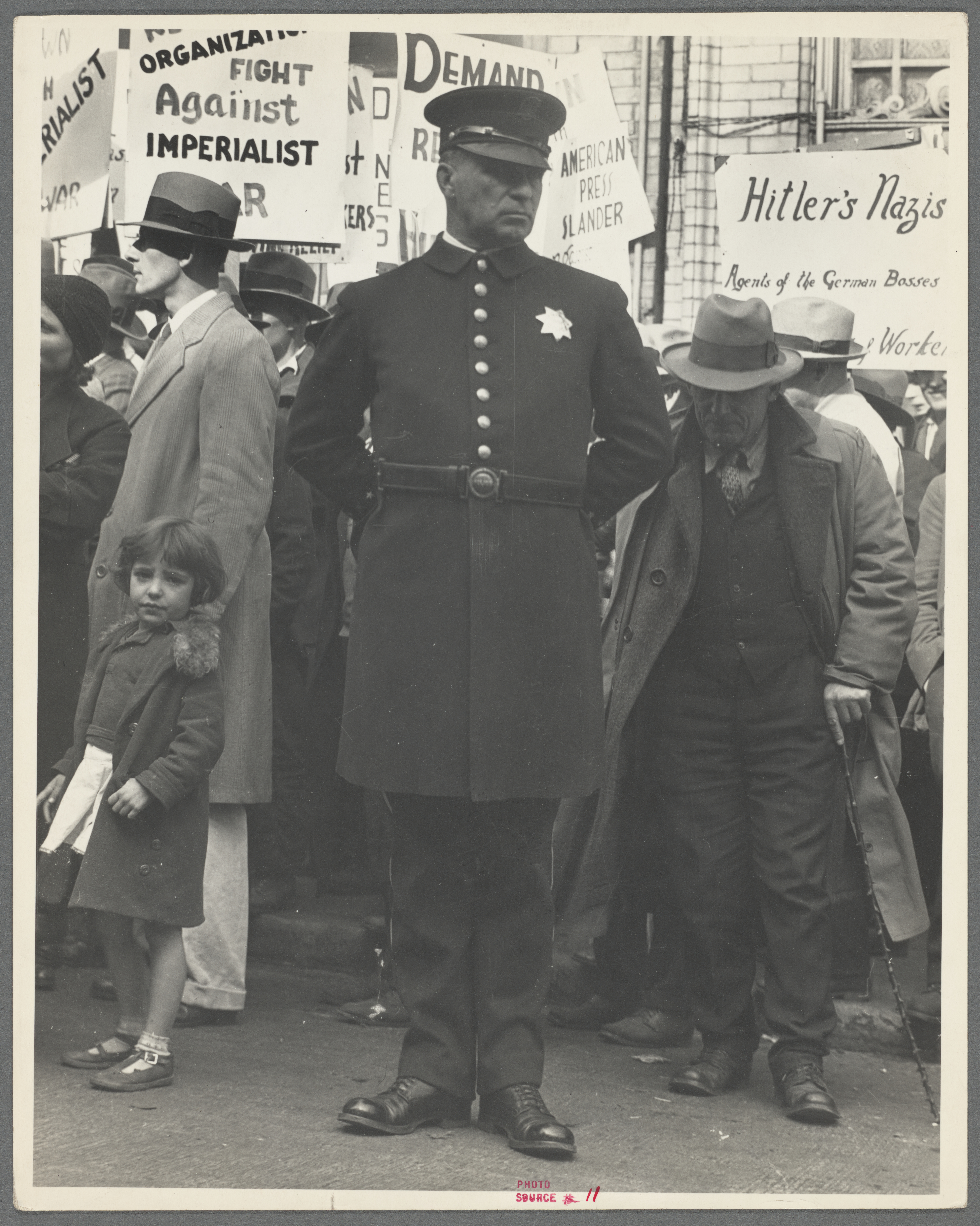 TMS ID: 22332 TMS Object Number: 009727-D c.3 Universal Unique Identifier (UUID): f20f2cc0-82c7-0136-ef32-2f7583154c47